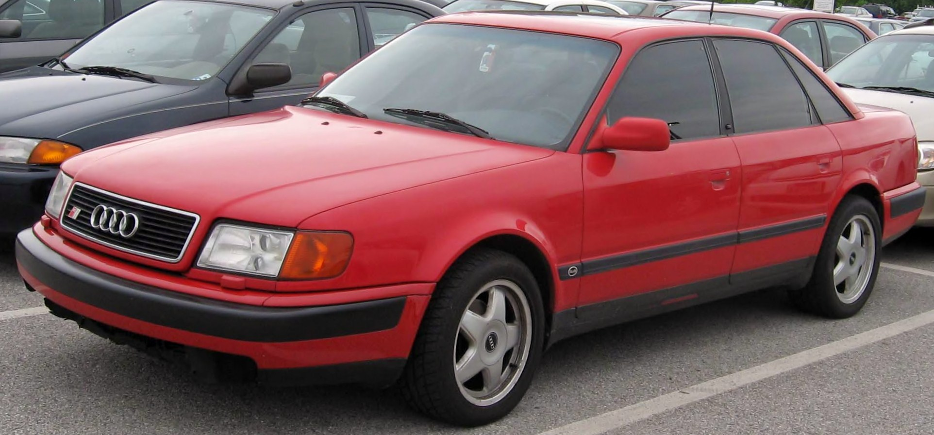 1991-1995 Audi S4 photographed in USA.